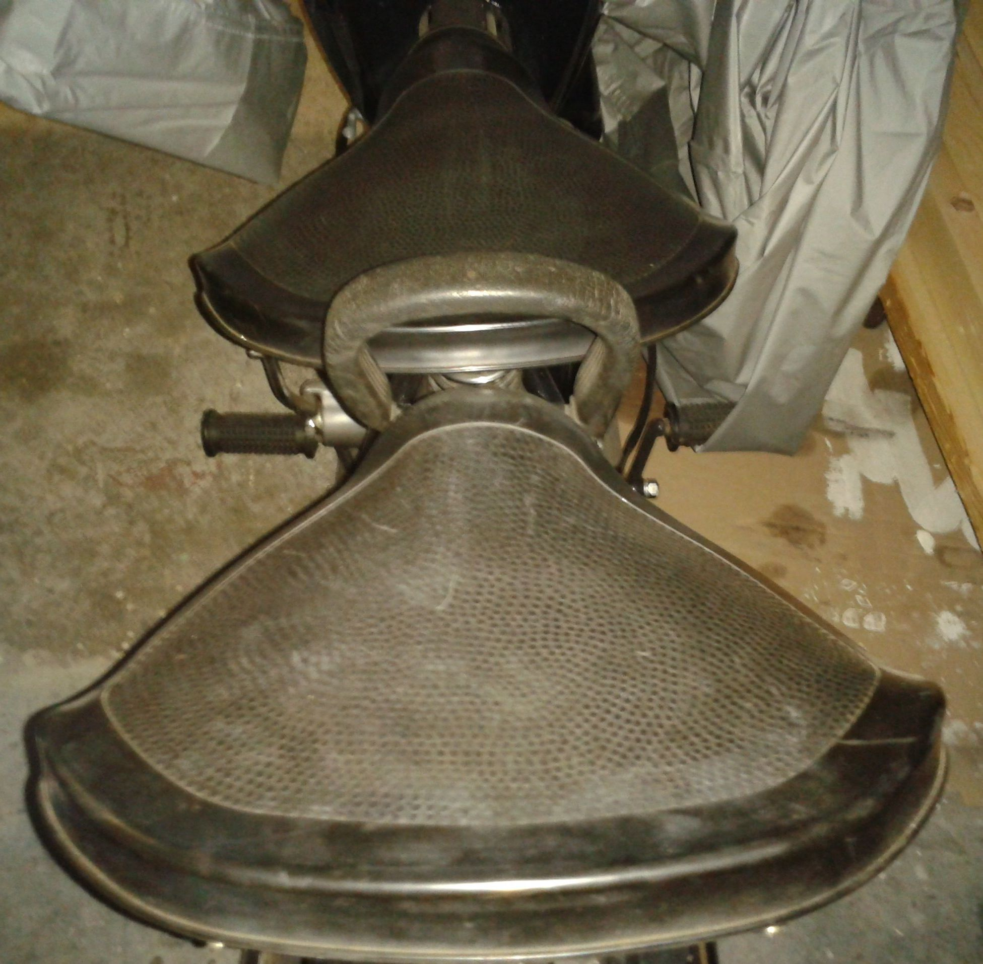 Motorcycle-strap between the seats (Oldtimer, Puch) with separate seats